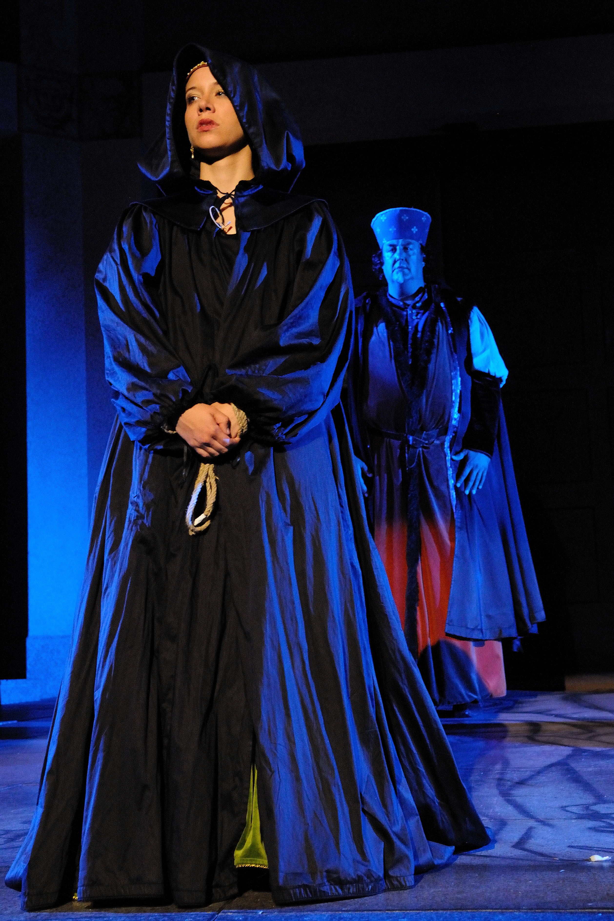 Agnes Bernauer before her judge (Agnes-Bernauer-Festspiele Straubing, 2011)